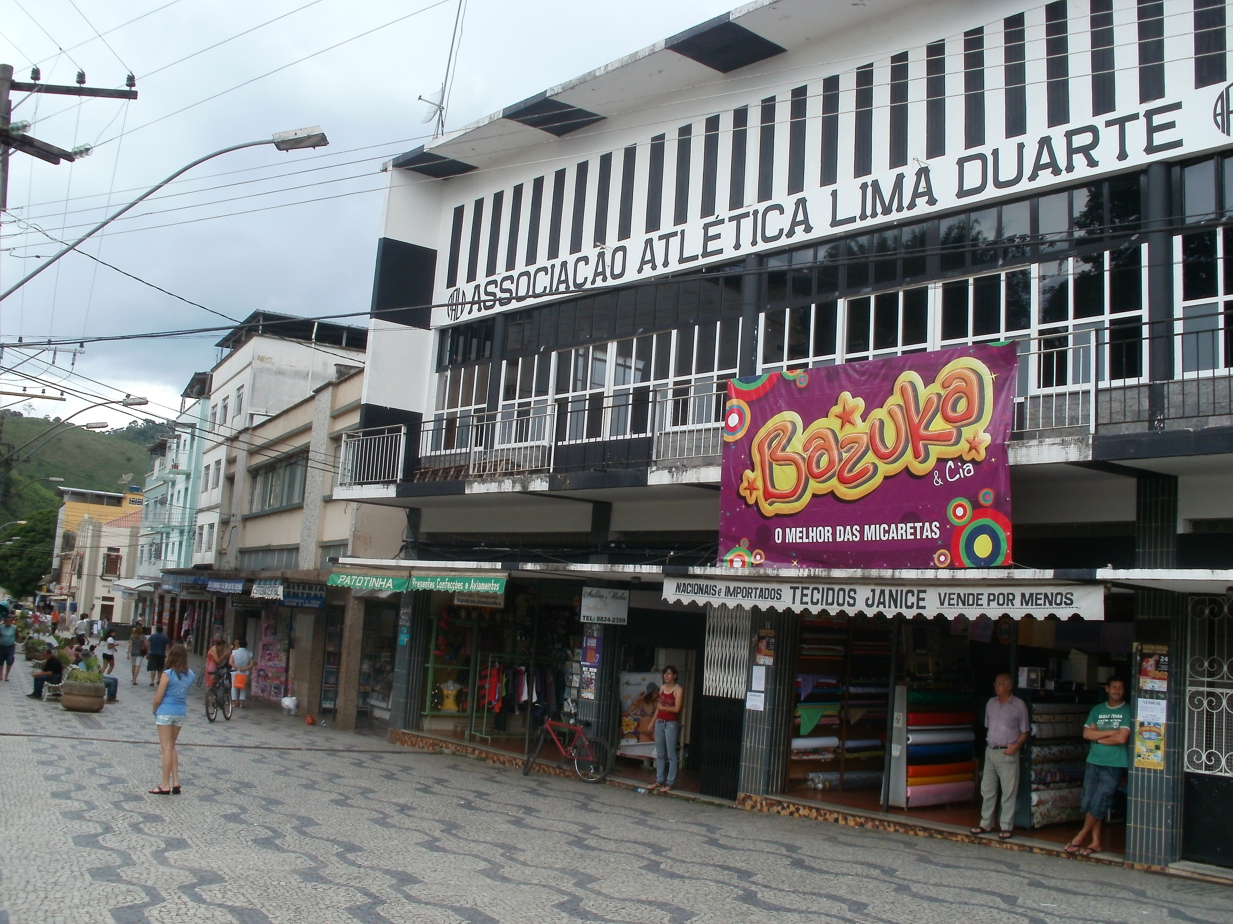 Nominato Paiva Duque Square, in Lima Duarte downtown, Minas Gerais, Brazil.